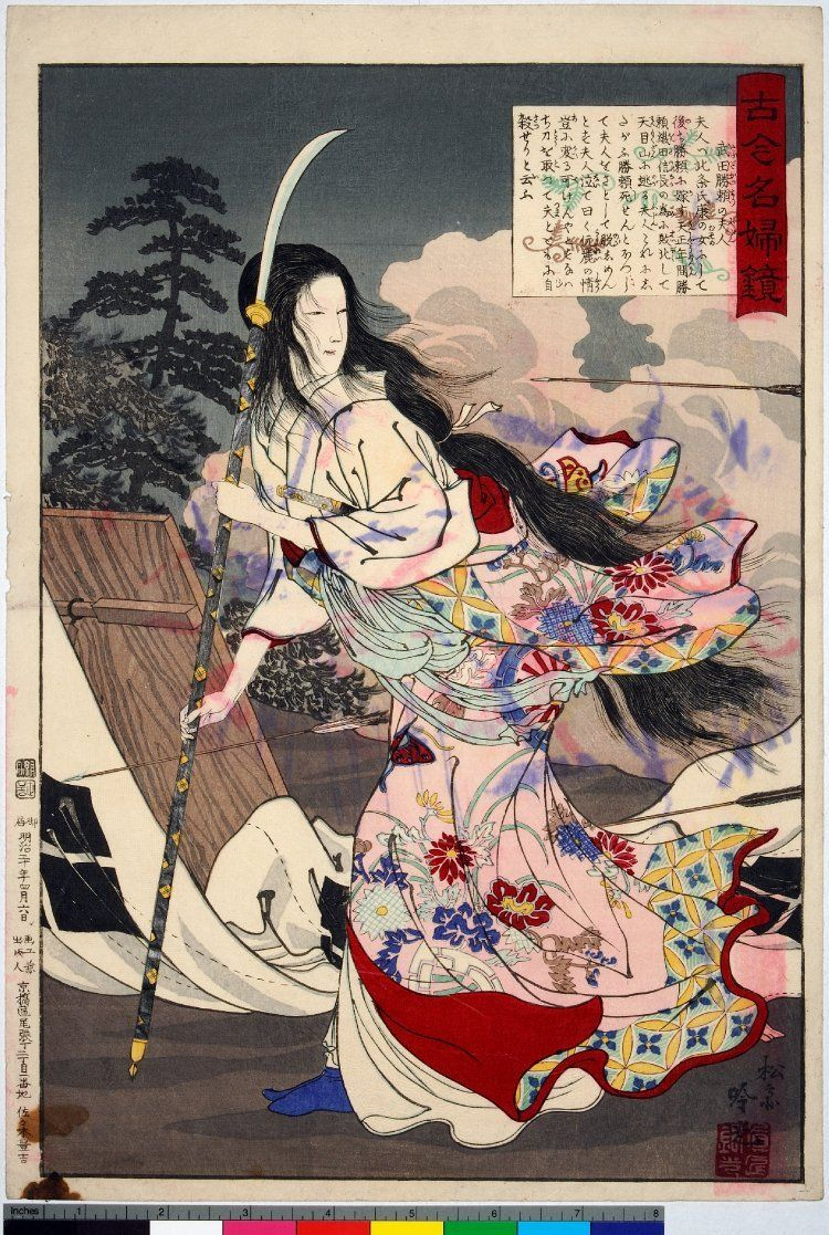 Hojo Masako carrying a naginata. The wife of Sengoku period daimyo Takeda Katsuyori (1546-1582) is depicted carrying a naginata during an attack. Her husband was defeated by Oda Nobunaga and had to flee, his wife going with him. However, Katsuyori was resigned to die and prompted her to leave. She refused and committed suicide with her husband. Print from the series : “Mirror of renowned women from ancient and modern times”